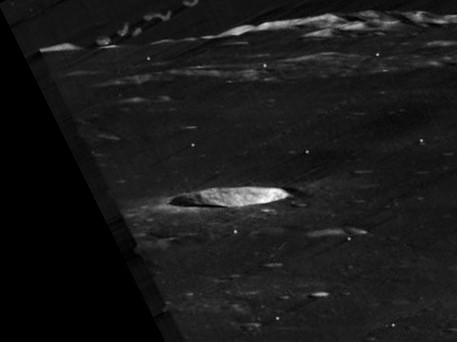 Oblique view of Fra Mauro T crater, near Fra Mauro, facing west, on the moon. The edge of the original image is the diagonal line at left.